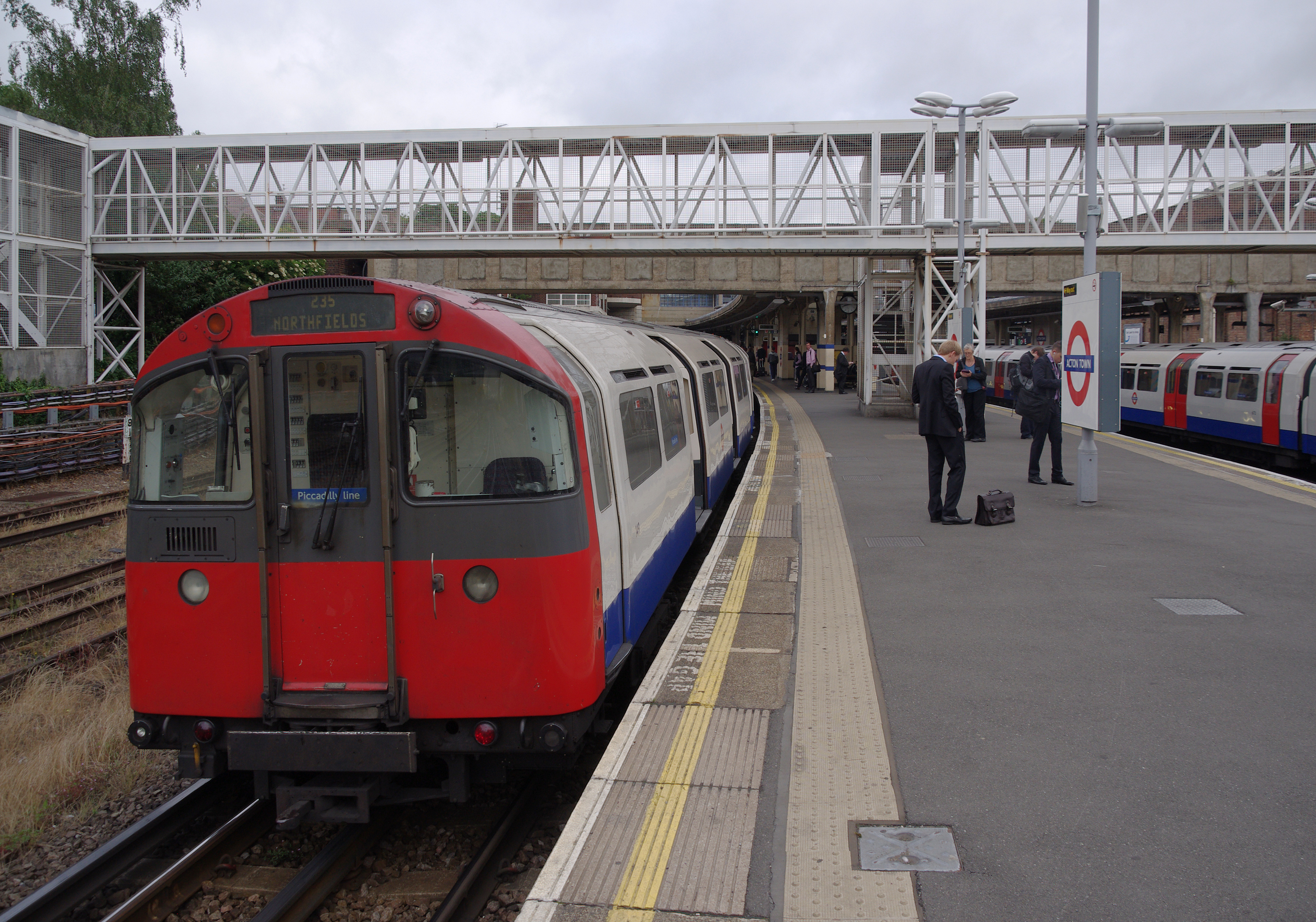 A westbound Piccadilly Line train, formed of 1973 stock, stands at Acton Town tube station with a service for Northfields.